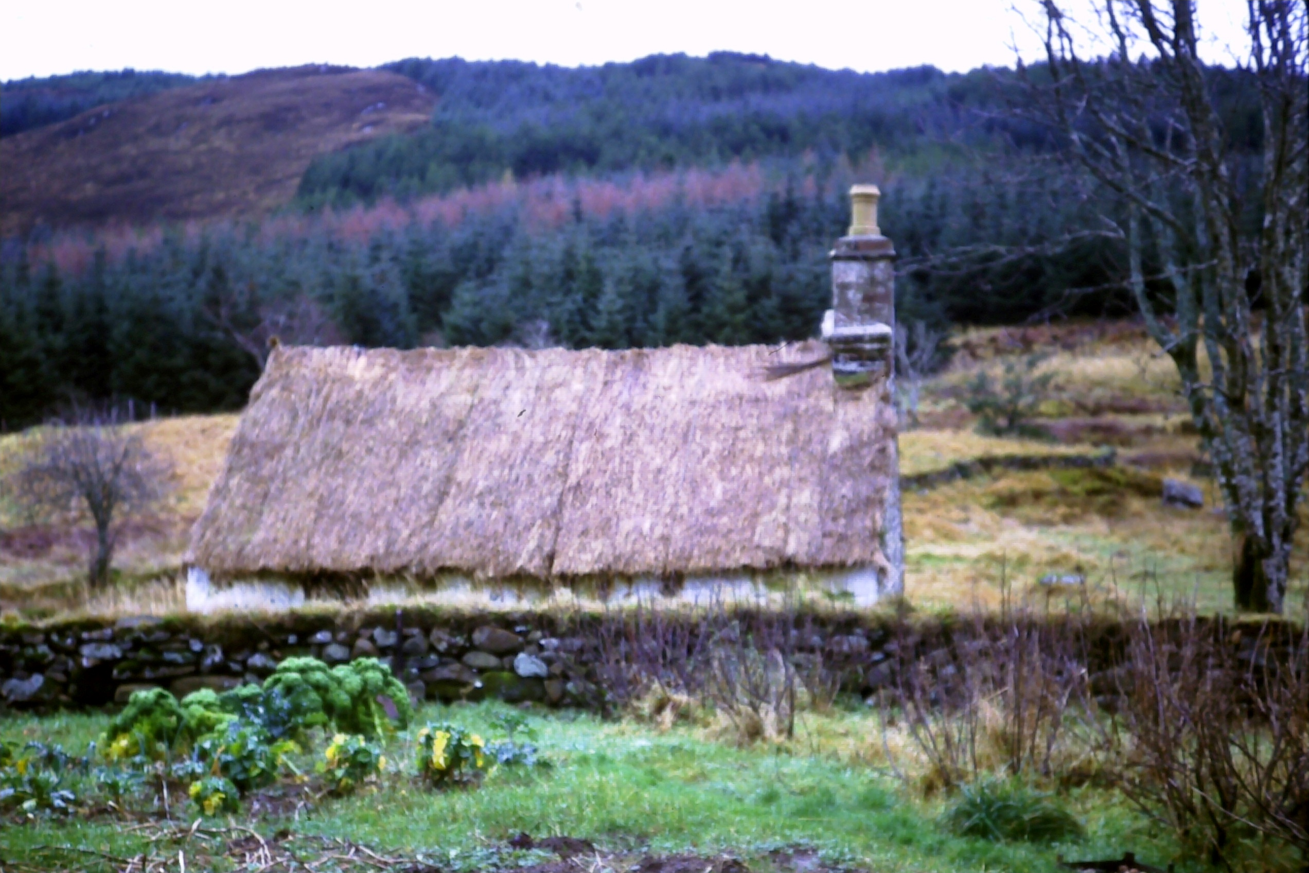 Cottage with kailyard, Auchindrain Township Open Air Museum, Argyll, photographed in 1985